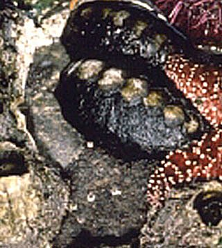 Black Chiton